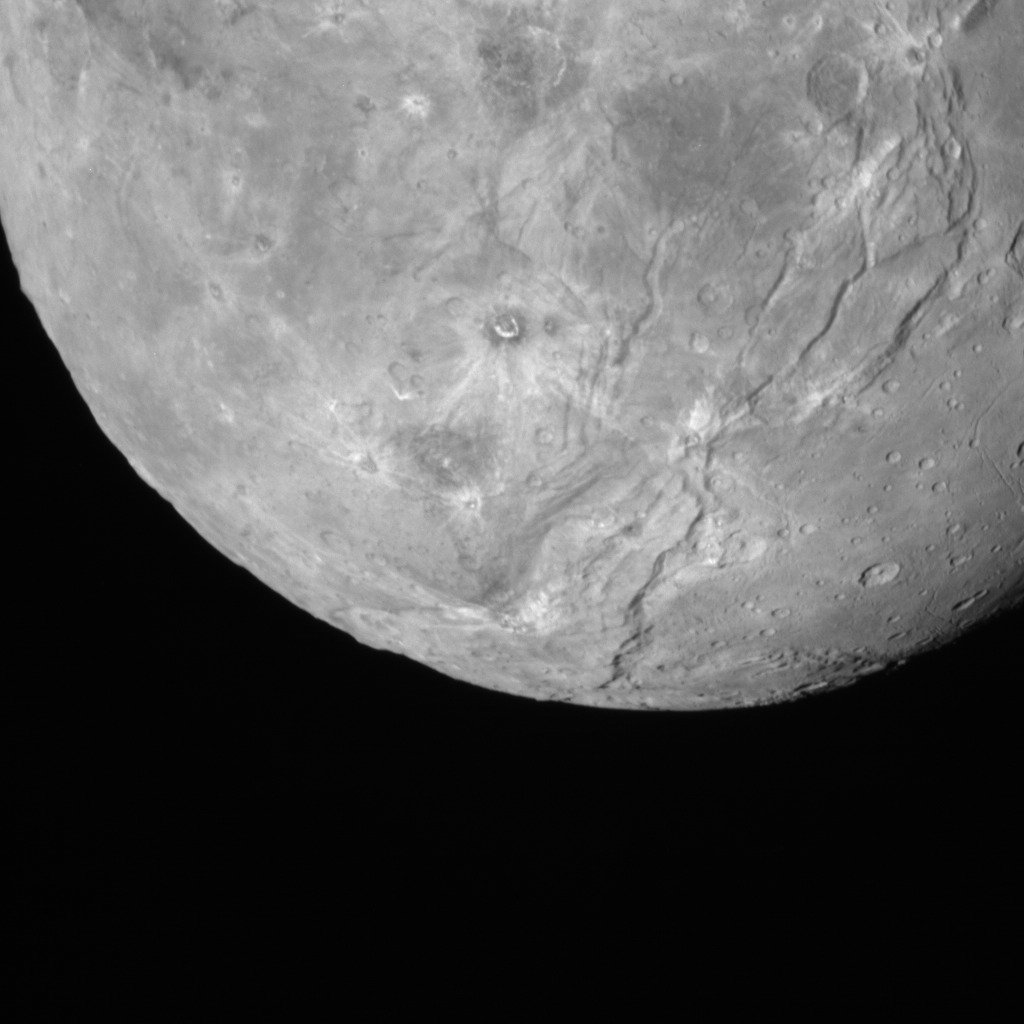 Tight-deadband 2-sigma LORRI mosaic of Charon (C_LORRI_L1; Target: CHARON; 0.859 km/pixel) 2015-07-14T08:37:28 Range: 174488 km Resolution: 0.862 km/pixel